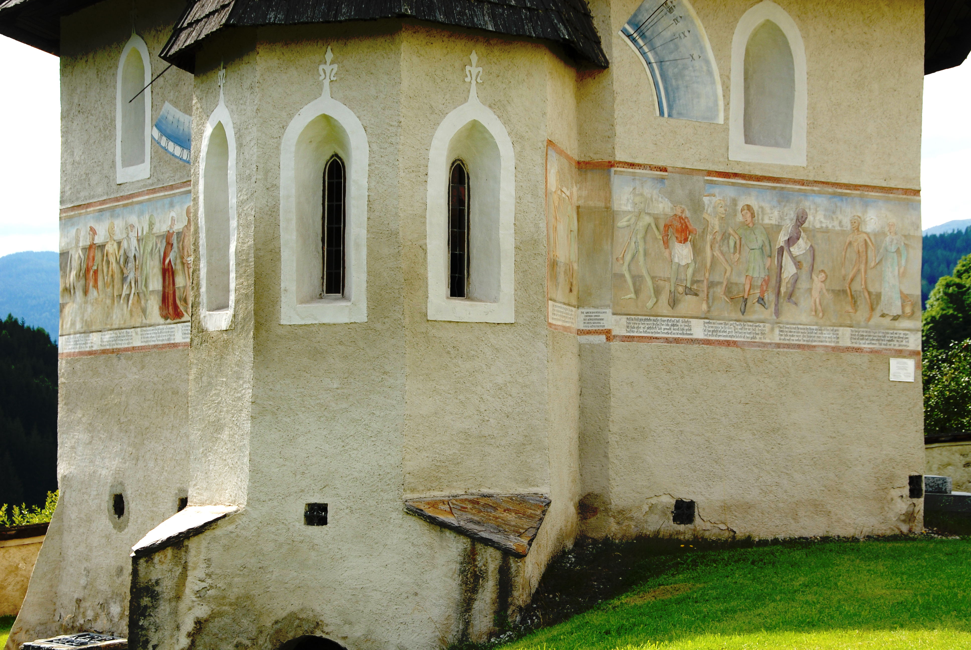 Charnel house at Metnitz with the famous Dance Macabre frescos, market town Metnitz, district Sankt Veit, Carinthia, Austria, EU